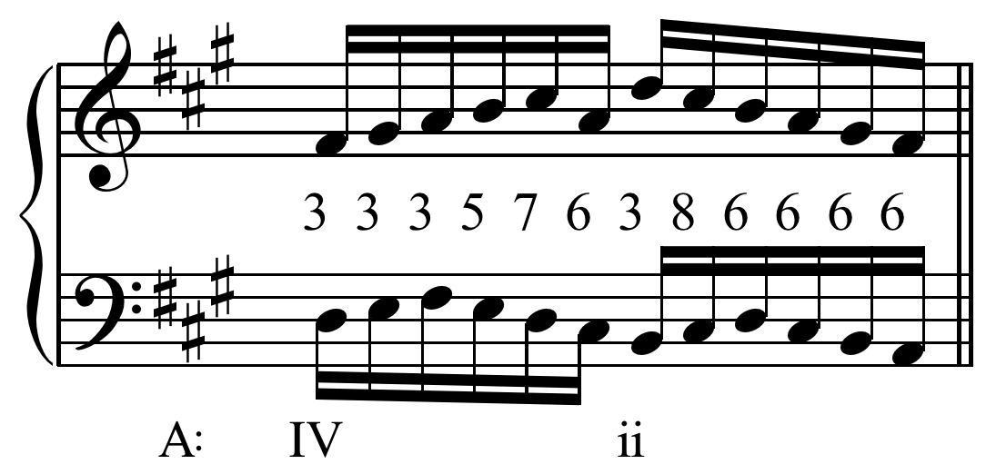 Musical score- Bach - Gigue from English Suite no. 1 in A Major, BWV 806, m. 38 - Extract demonstrating the independence of the lines.